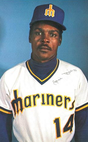 Professional baseball player Jose Baez